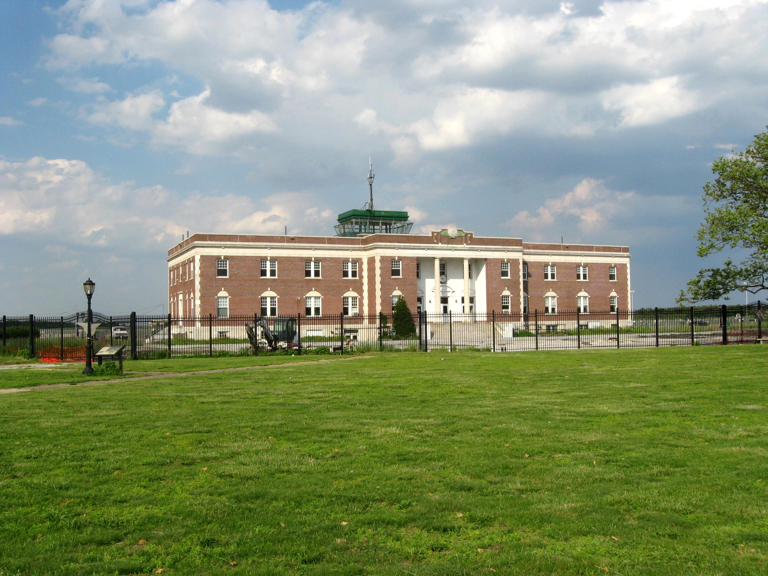 Looking east at Floyd Bennett Field admin building and tower on a mostly sunny afternoon.